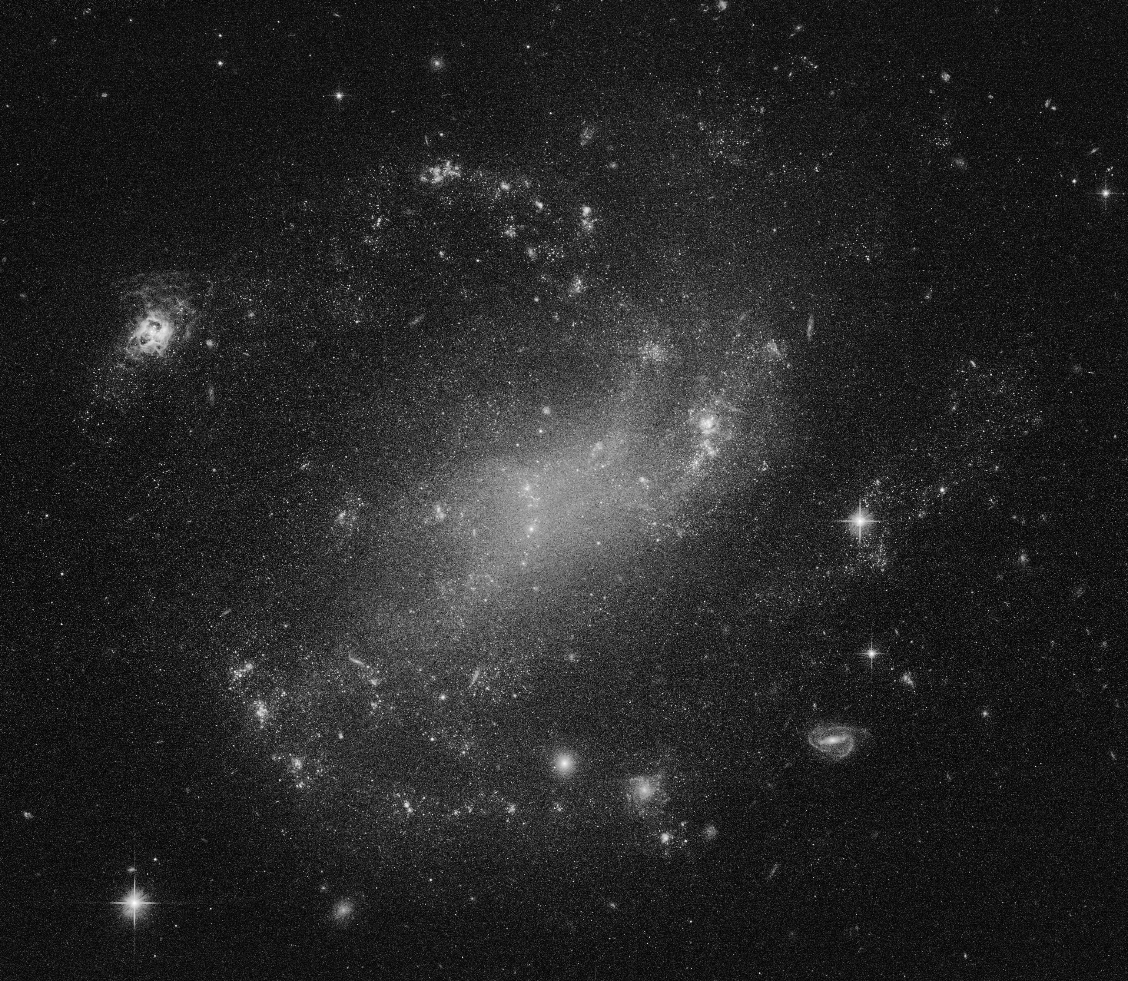 Data from the following proposal is used to create this image: Establishing HST's Low Redshift Archive of Interacting Systems All channels: ACS/WFC F606W North is 62.74° clockwise from up.